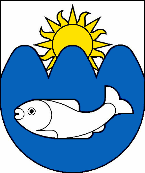 Coat of arms of Myjava, Slovakia